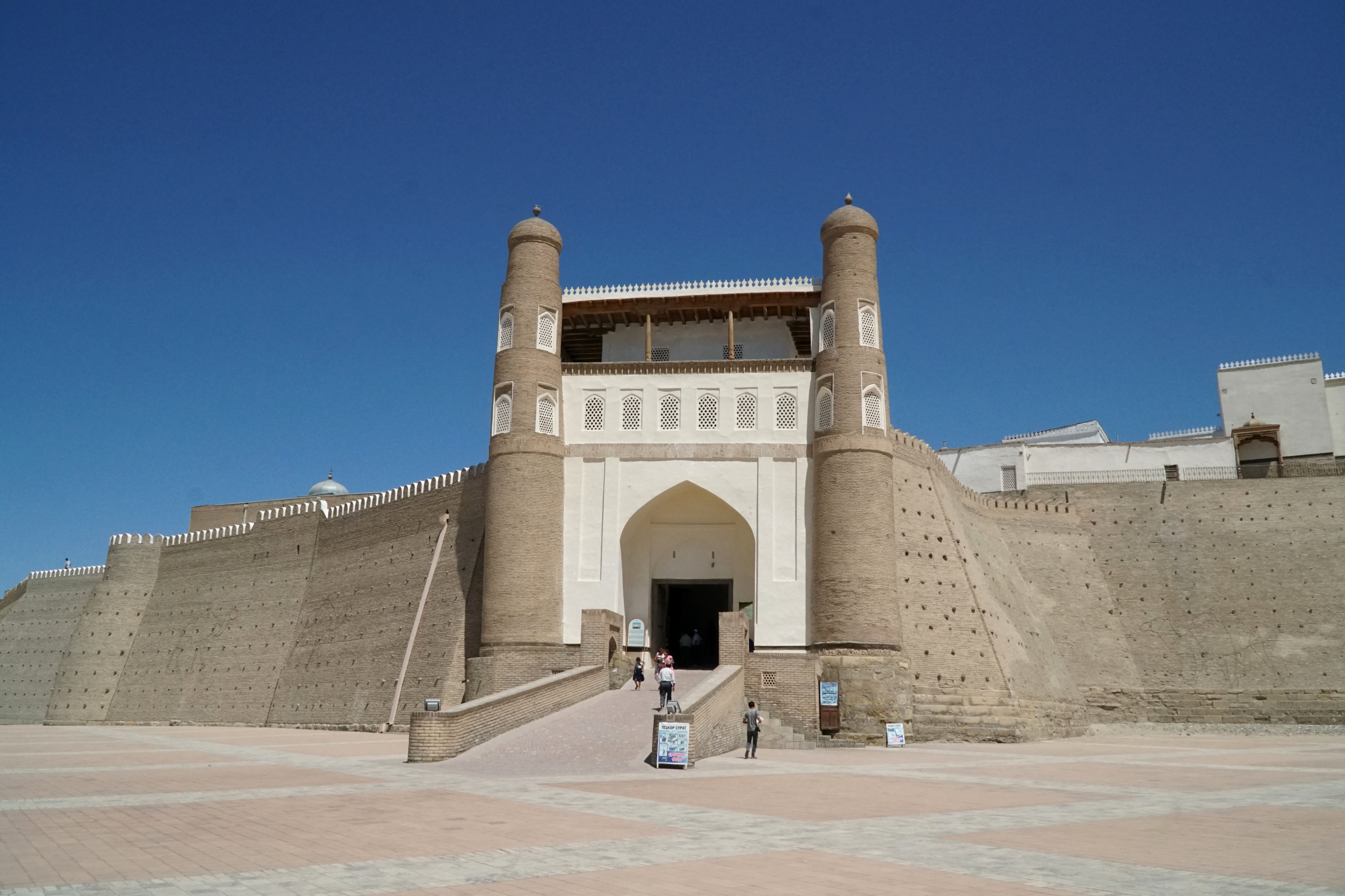 Entrance of the Ark in Bukhara